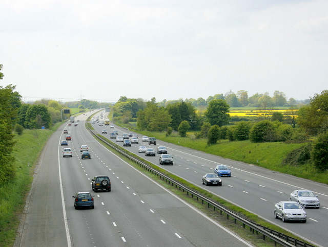 M4 Motorway looking west